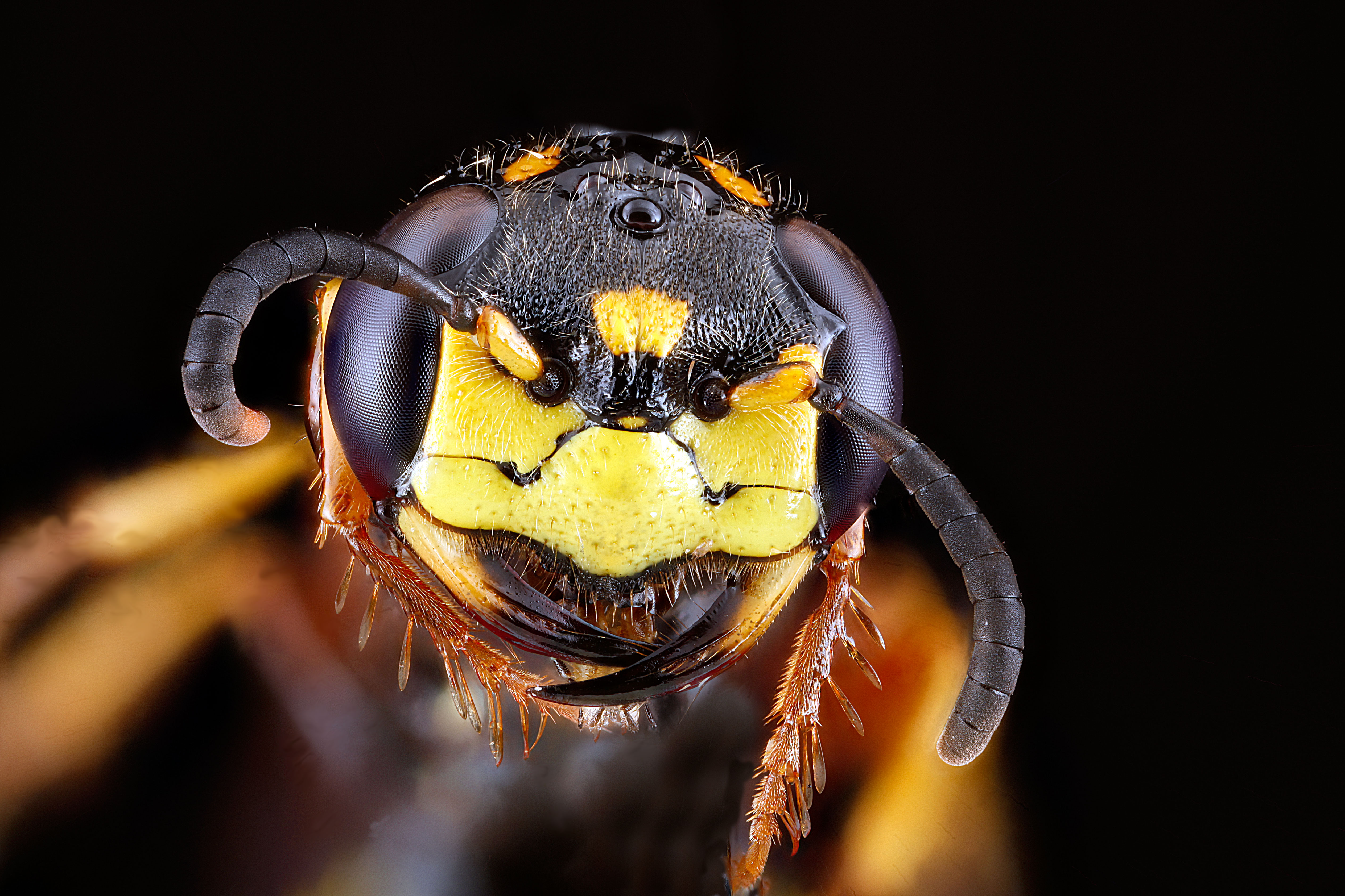 Philanthus gibbosus, female, Anne Arundel County, Patuxent Wildlife Research Refuge, Maryland, July 2012, Determination by Matthias Buck